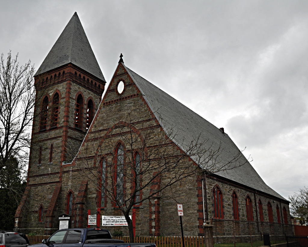 A photograph of the historic Evangelical Baptist Church in Newton, Massachusetts.